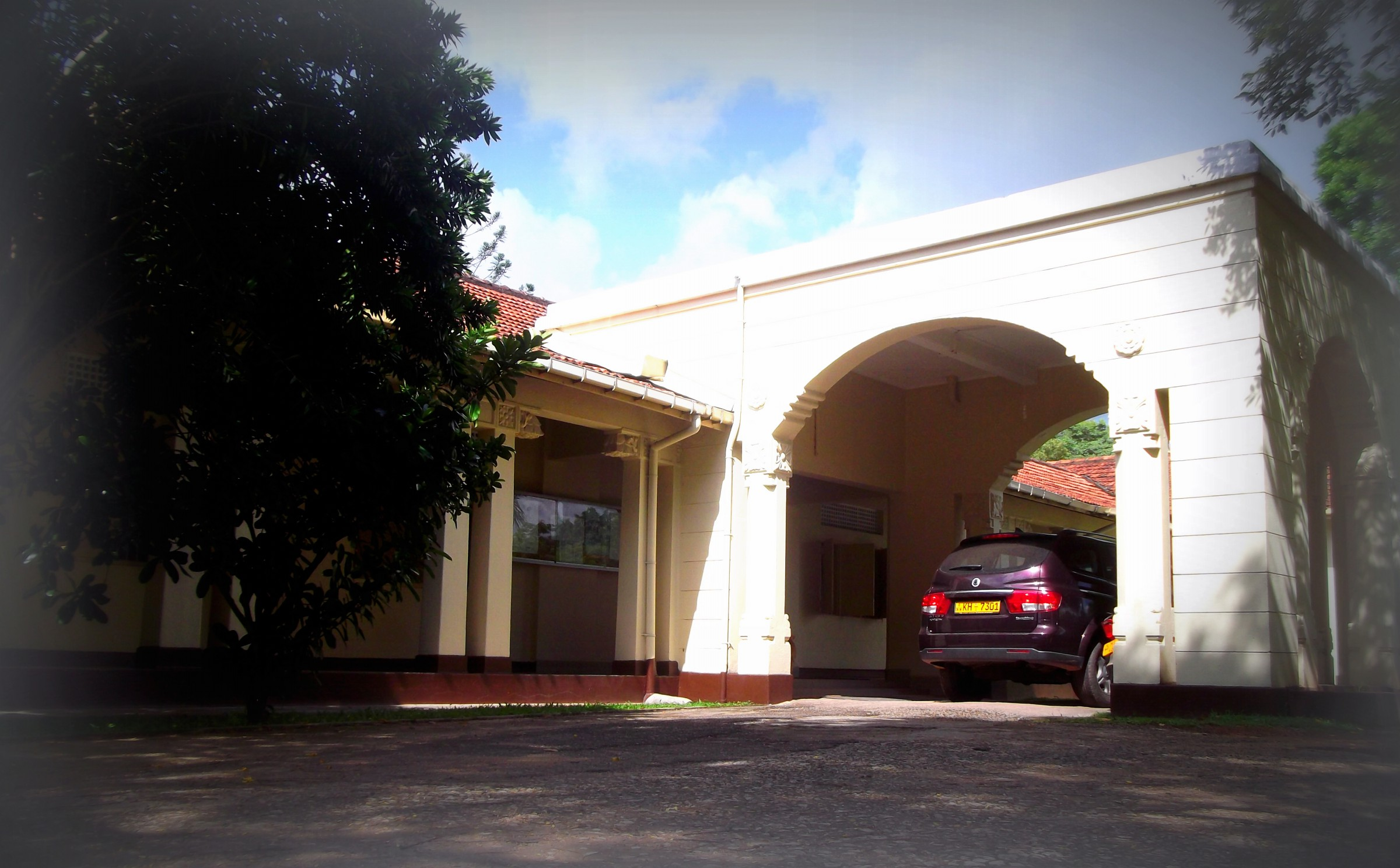 This is the College's Main Office - Bandaranayake Central College, Veyangoda view in 2015.